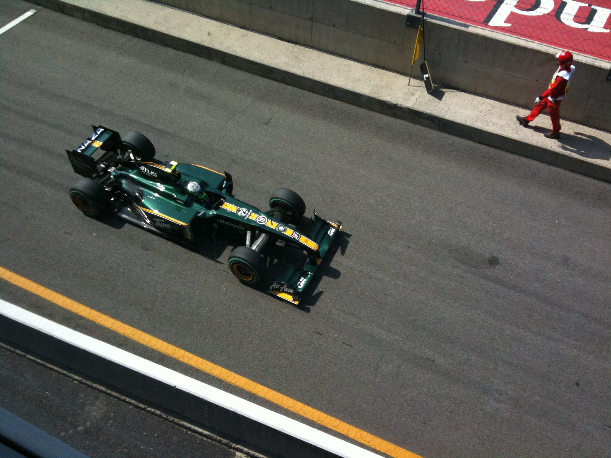 Heikki Kovalainen driving for Lotus Racing at the 2010 Italian Grand Prix.